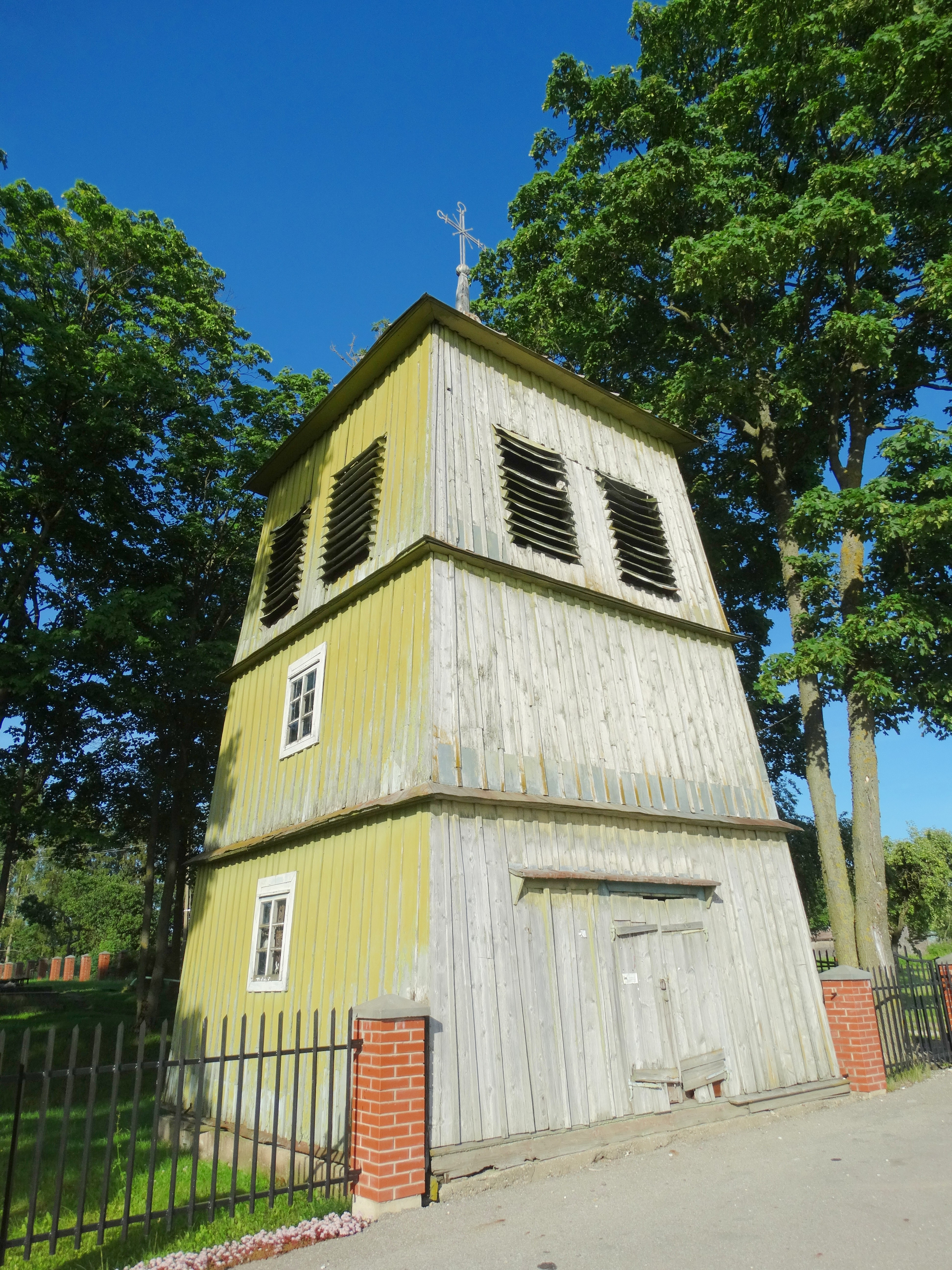 Belfry in Labūnava, Kėdainiai District, Lithuania